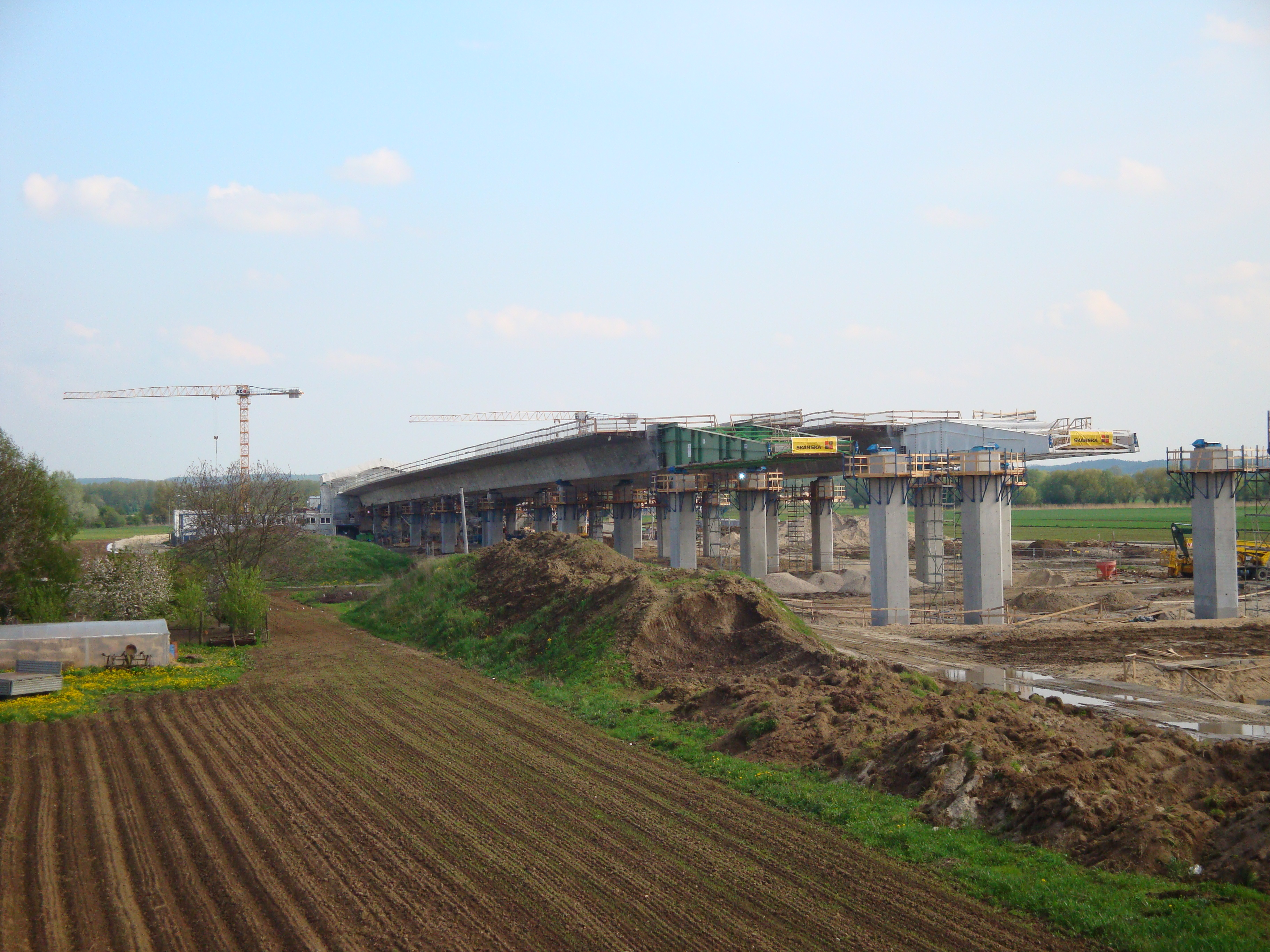 Construction works of bridge over Wisla for freeway A1, near Grudziądz, Poland